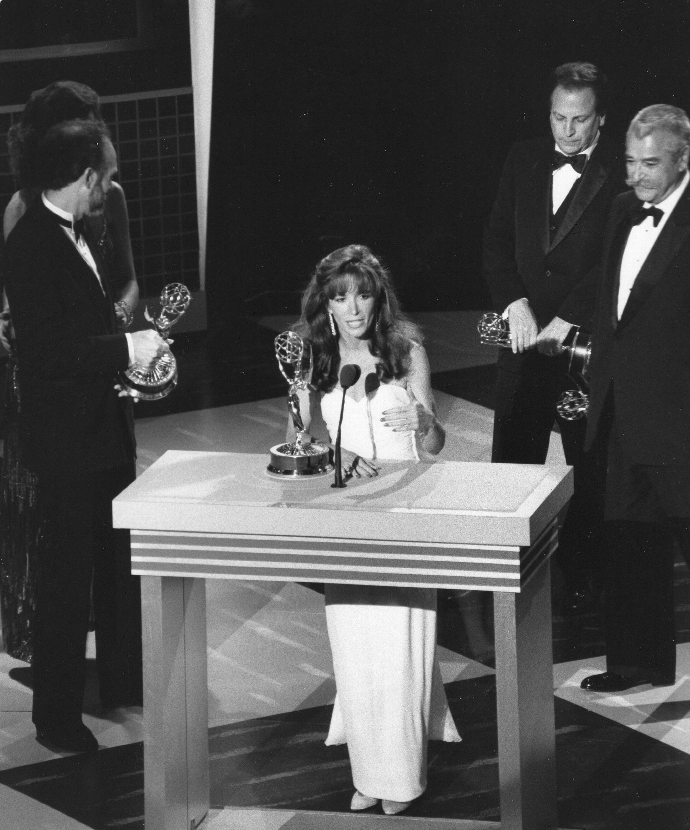 Cathy Guisewite accepting her Emmy Award in 1987.